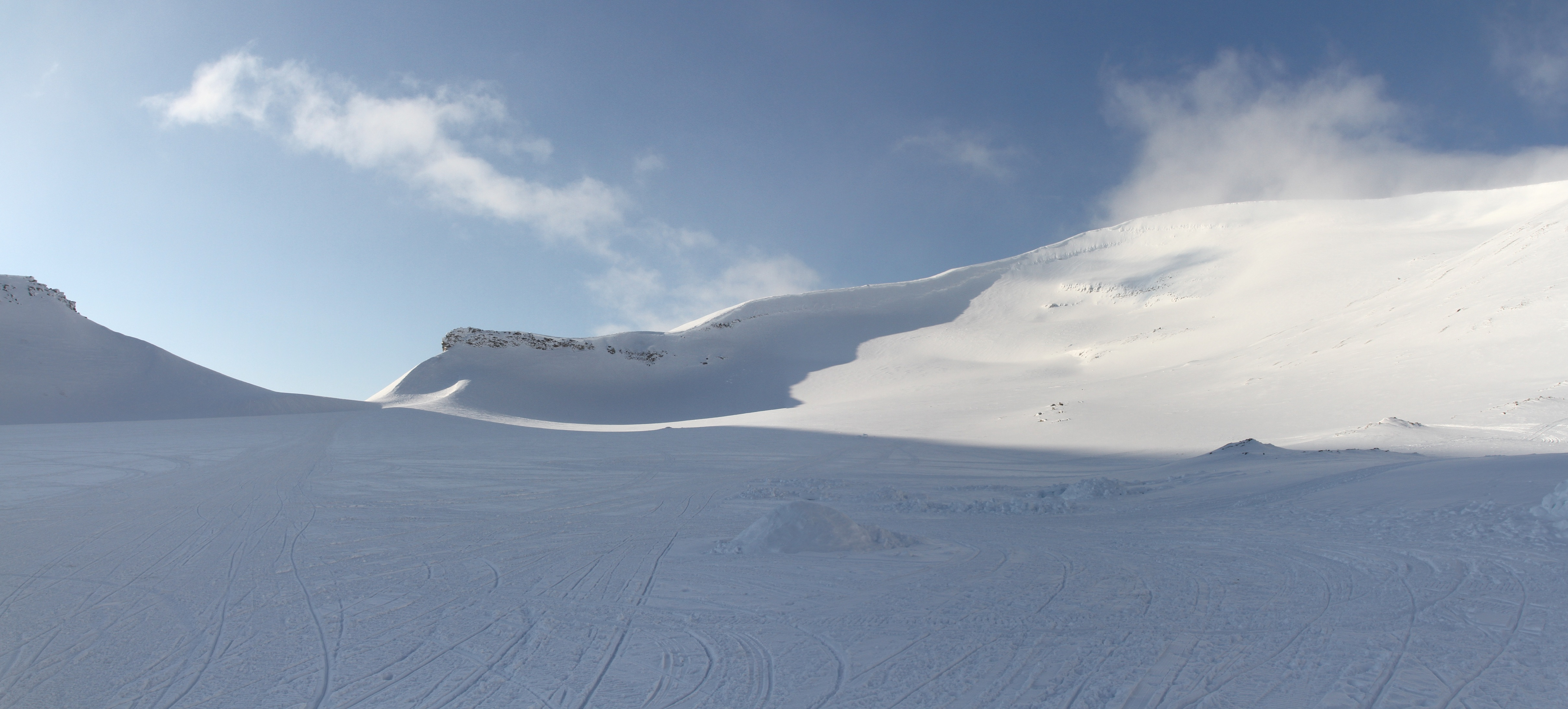 Longyearbreen with the mountain Teltberget, seen from the north towards south. Spitsbergen, Norway.